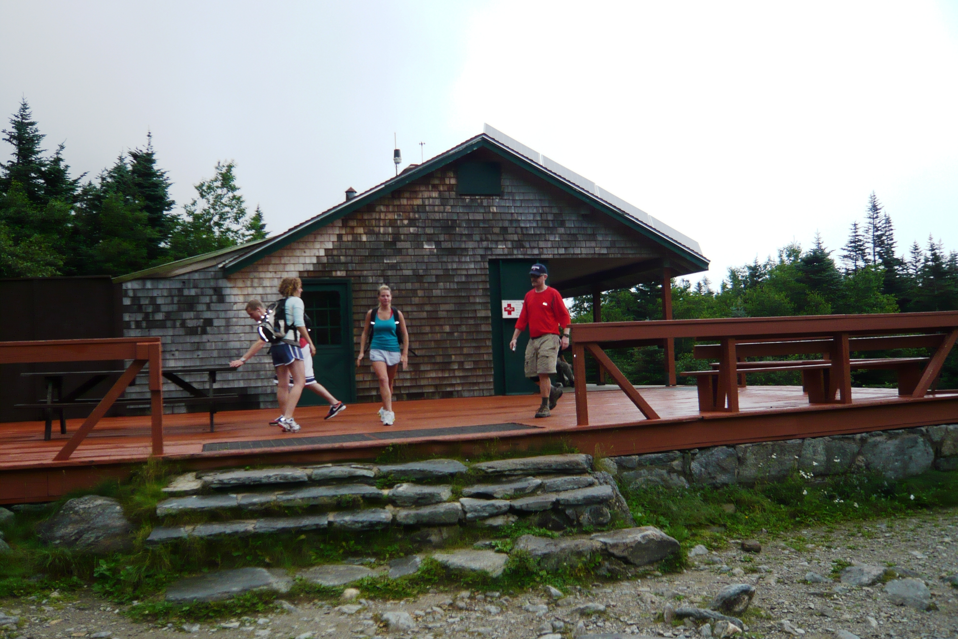 Caretaker's House, Tuckerman's Ravine, Mount Washington, New Hampshire